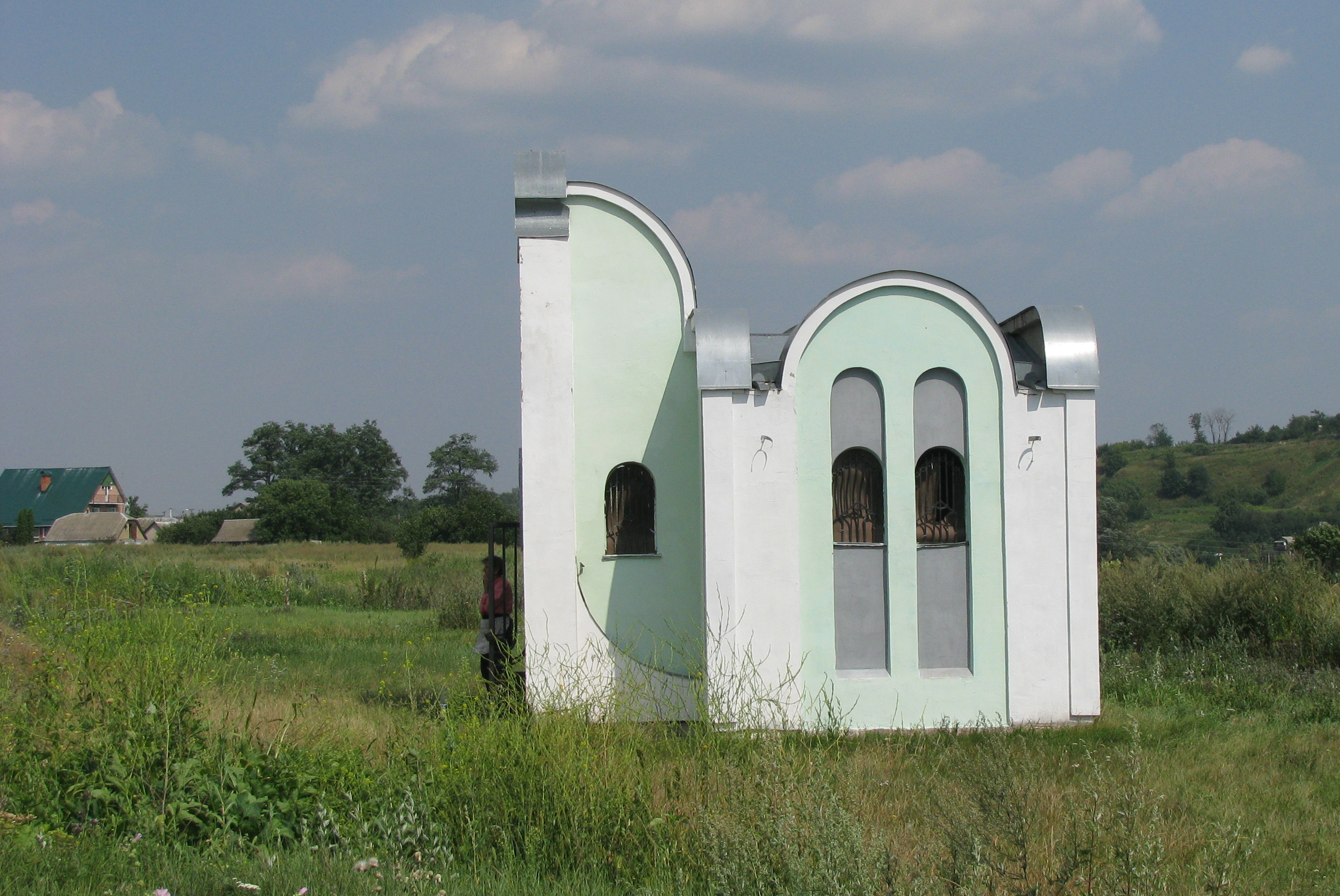 The tzion (mausoleum) of the Chernobyl Maggid in Anatevka, Ukraine